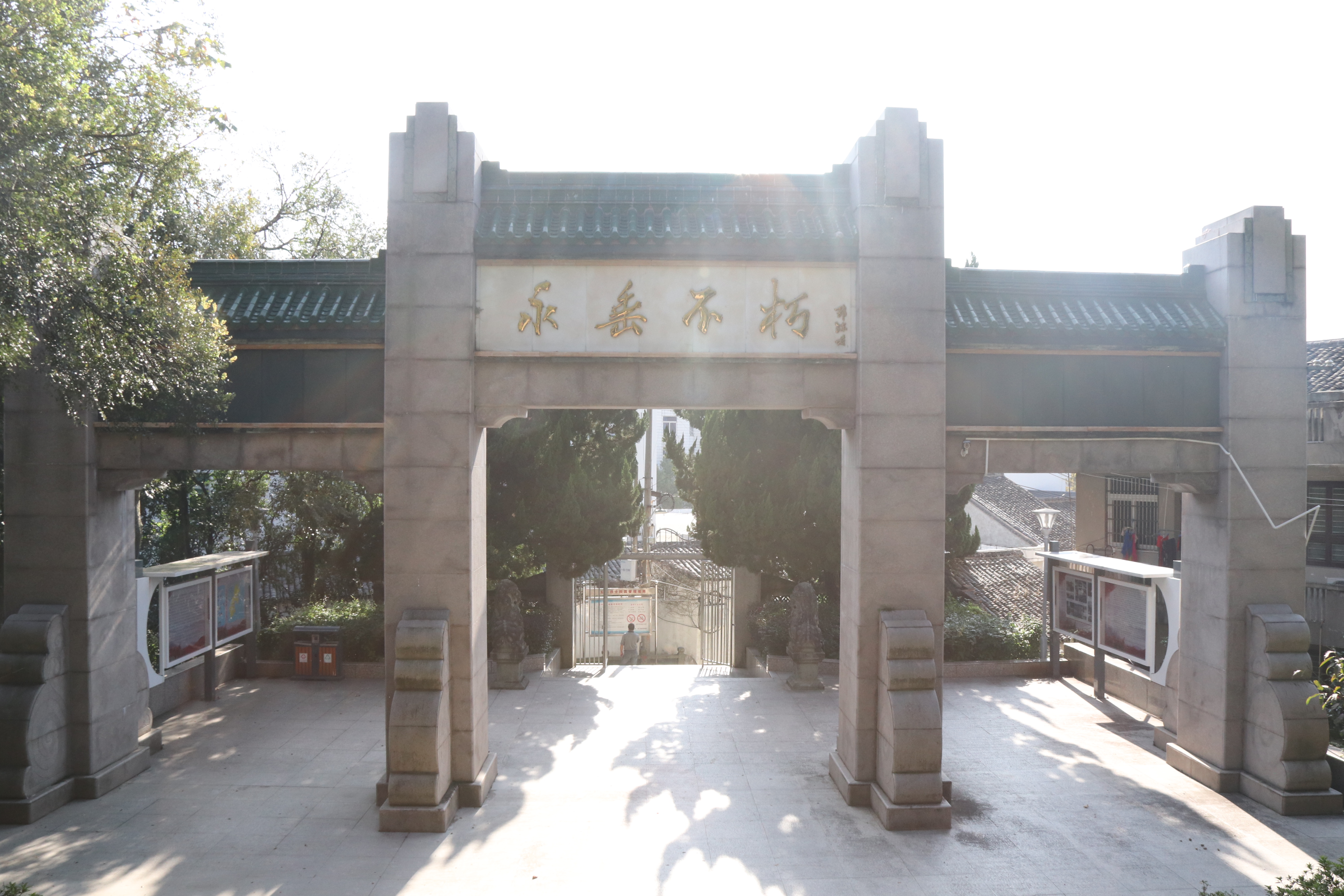 玉环市烈士陵园-5